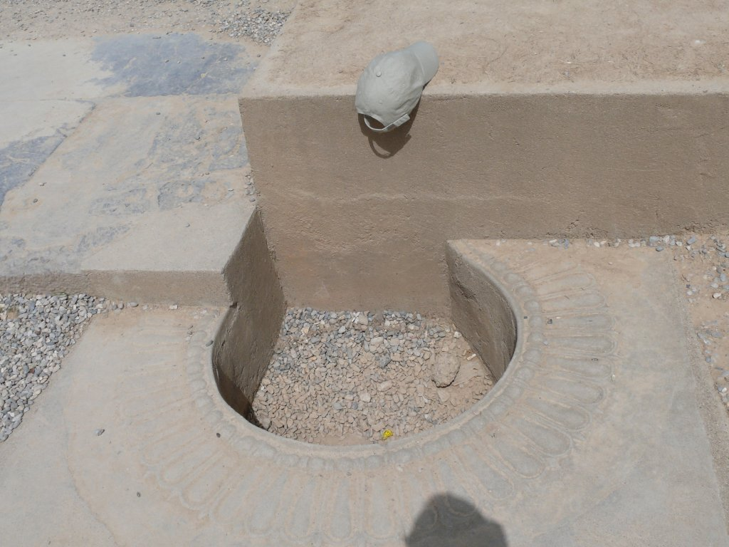 Door Pivot, Haddish Palace, Persepolis Iran